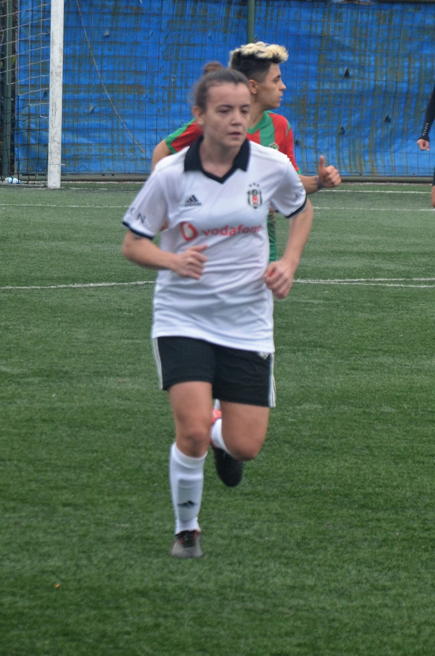 Ayşe Şevval Ay of Beşiktaş J.K. in the 2018-19 Turkish Women's First League.